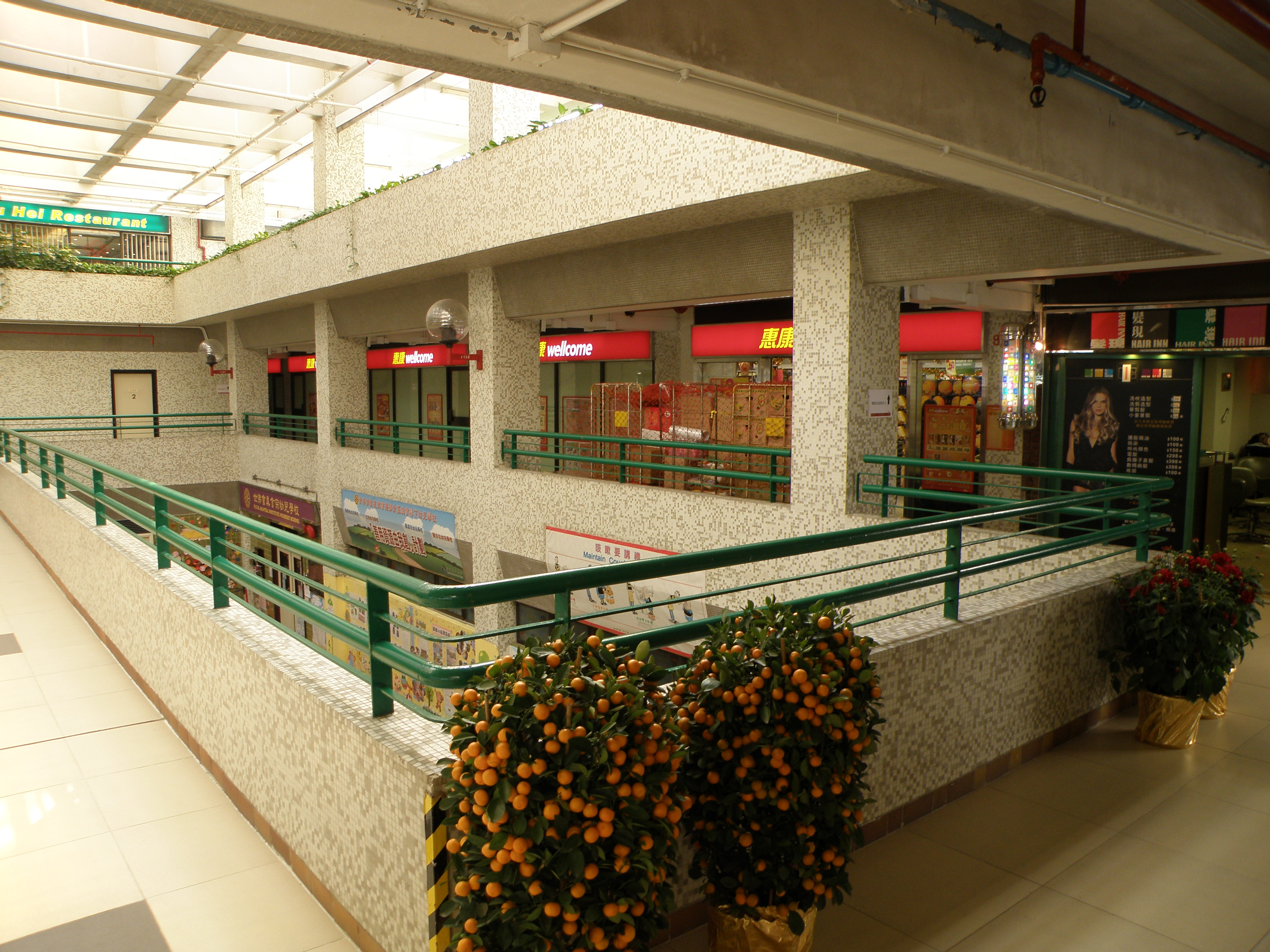 Siu Hei Shopping Centre in Tuen Mun, Hong Kong.